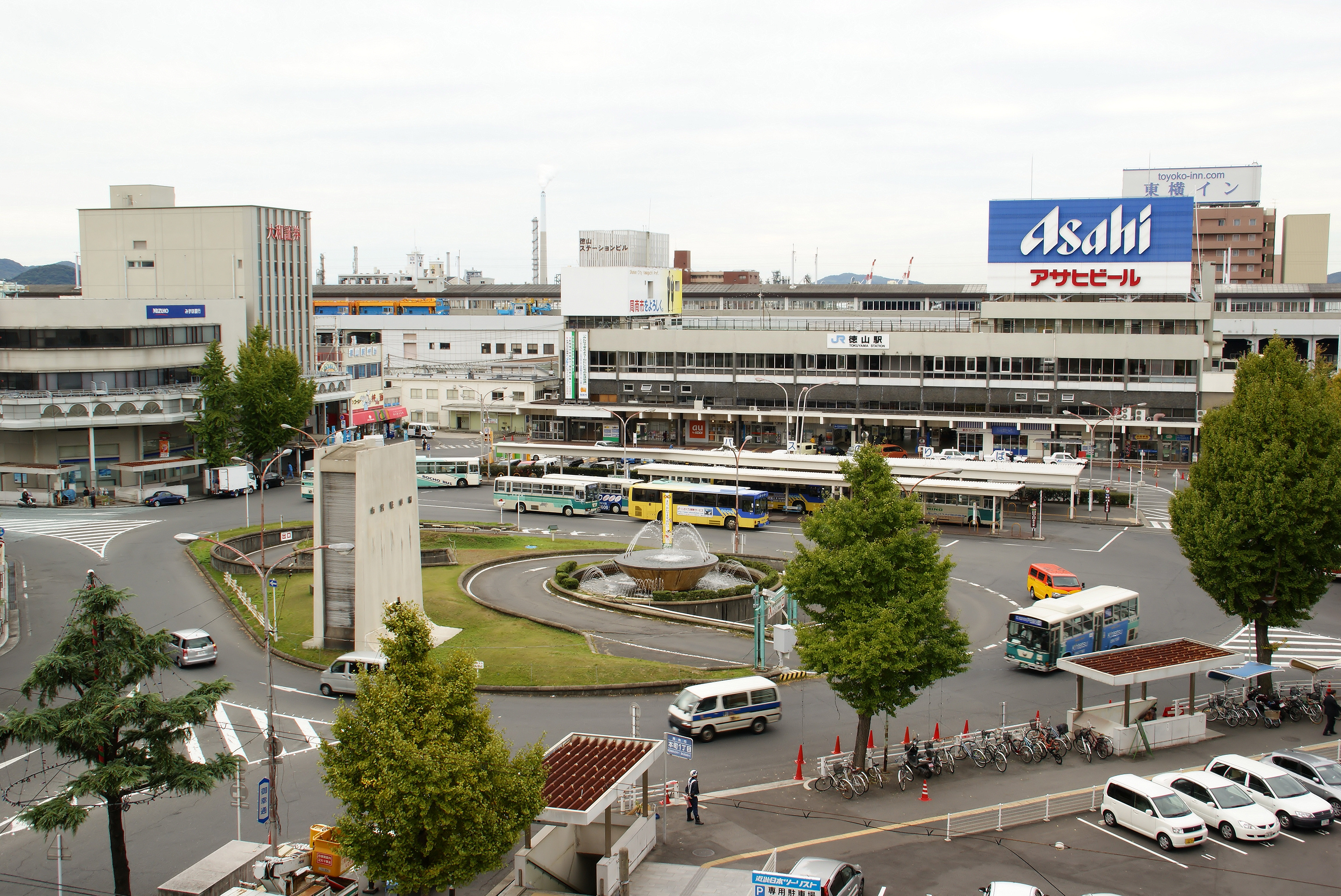 West Japan Railway, Tokuyama Station.(Shunan City, Yamaguchi Prefecture, Japan)